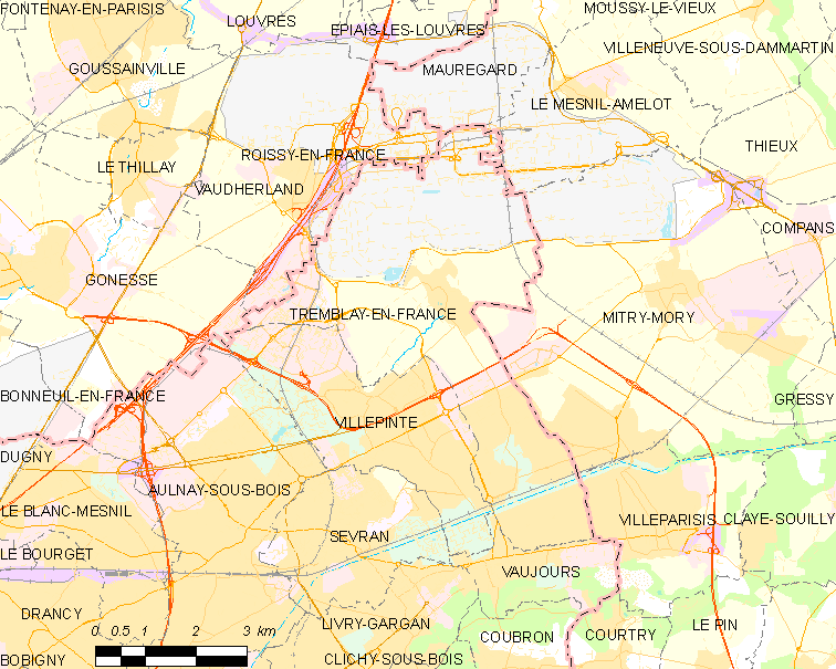 Map of French municipality Tremblay-en-France